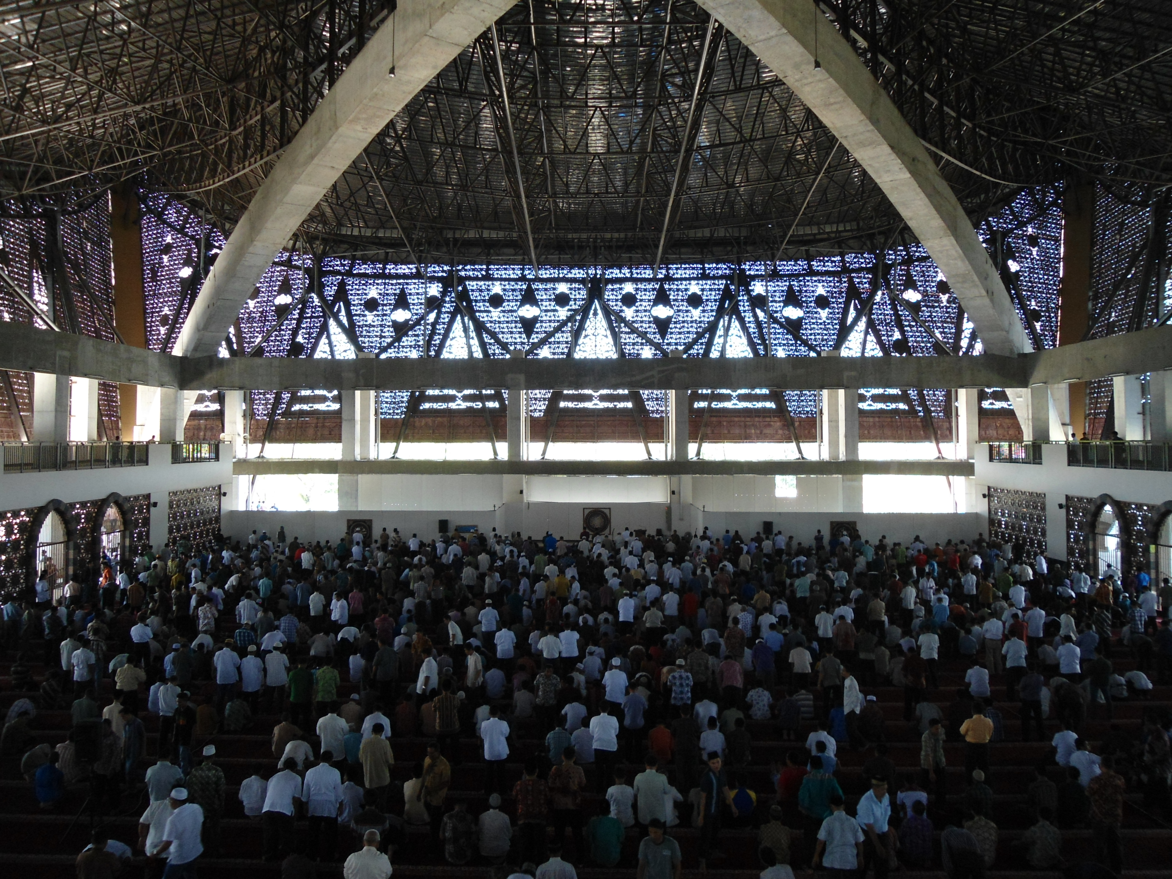 Jamaah usai melaksanakan shalat jumat di Masjid Raya Sumbar, Jl Khatib Sulaiman, Padang, Jumat (7/2)